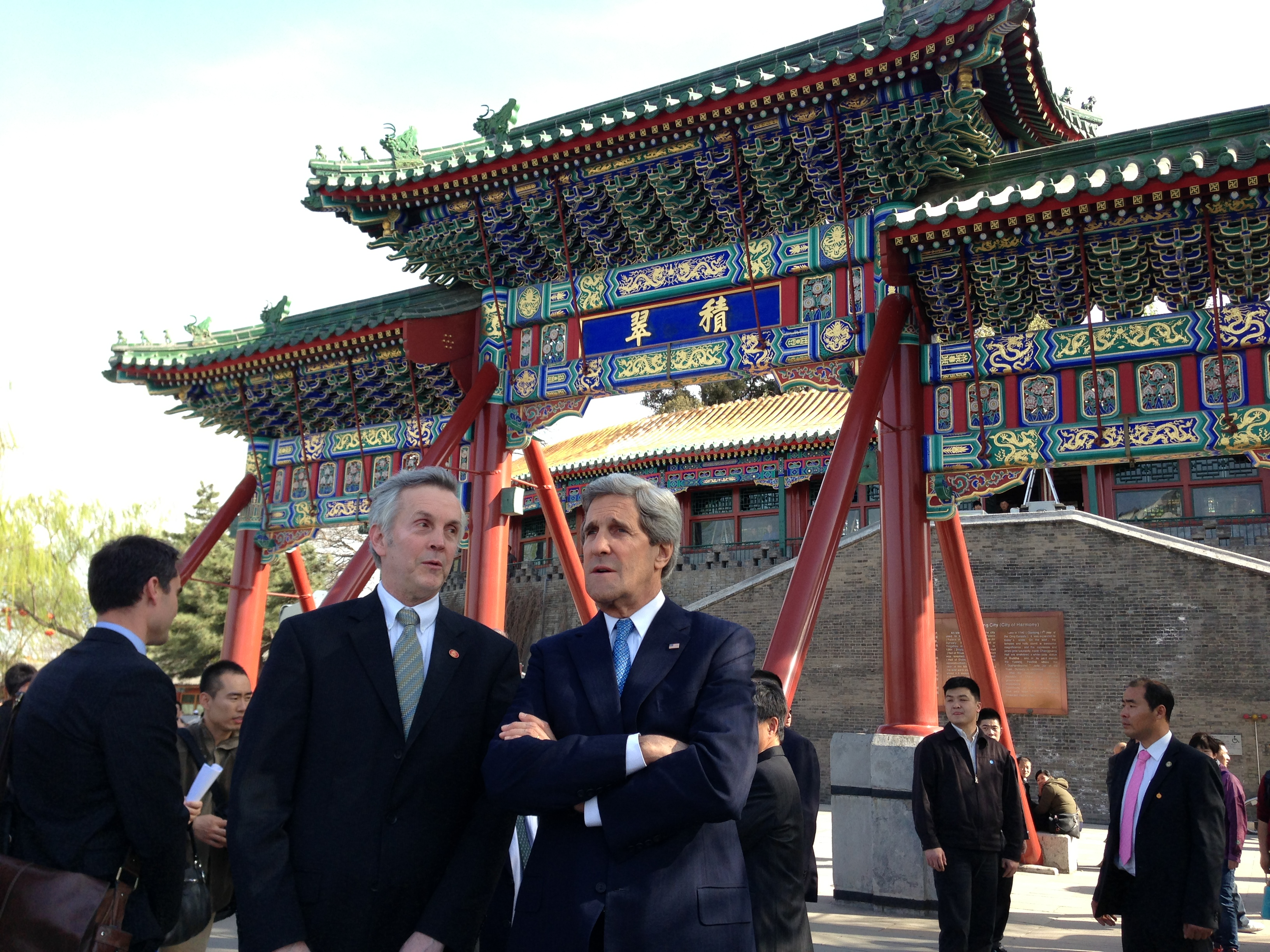 U.S. Secretary of State John Kerry, accompanied by longtime Chinese translator James Brown, stand in front of the South Gate to Beihai Park and look at Bai Ta, or the White Pagoda, at Beihai Park in Beijing, China, on April 13, 2013. [State Department photo/ Public Domain]